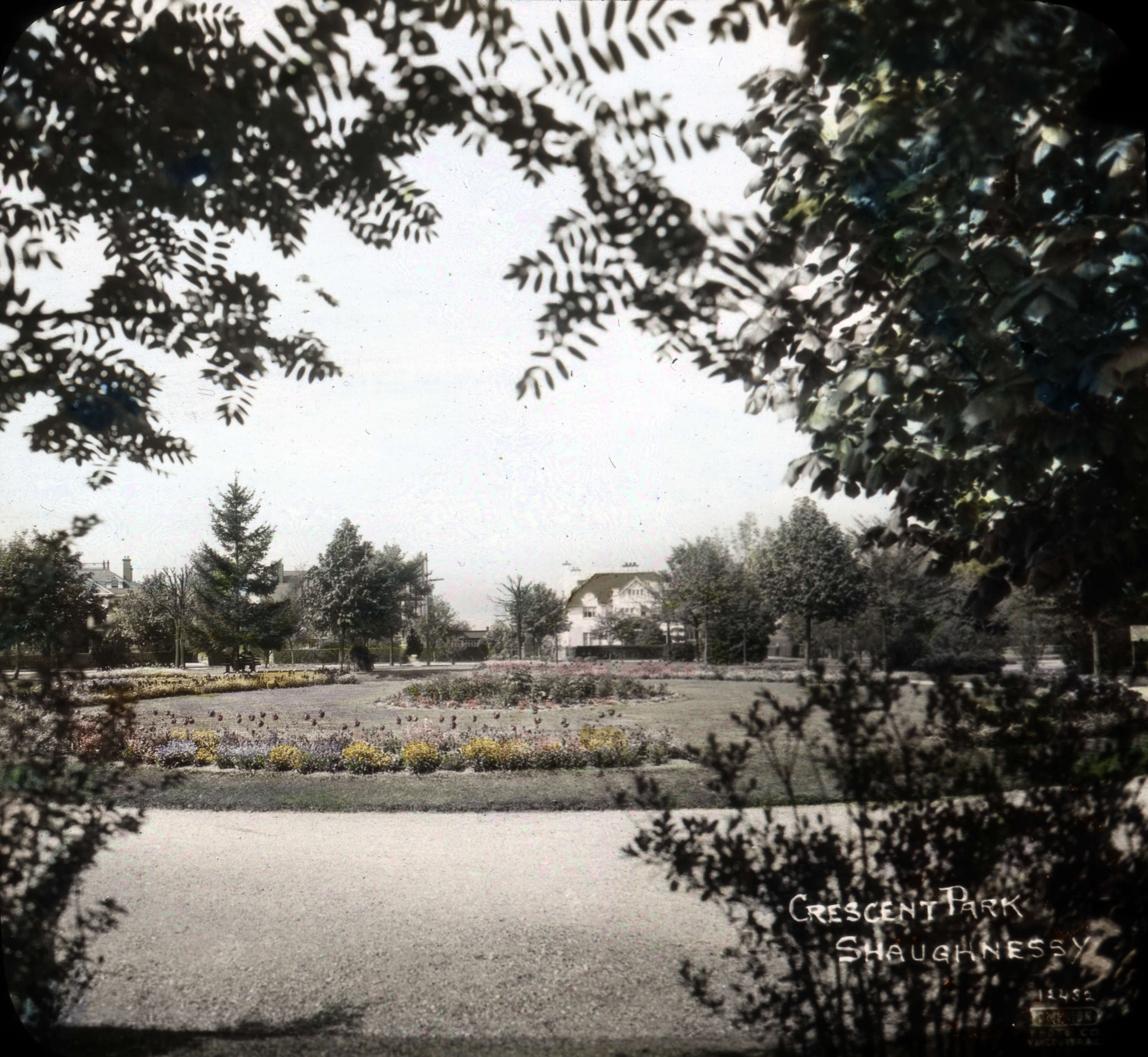 This is a photo of Crescent Park located in First Shaughnessy, Vancouver, taken sometime in the 1930's